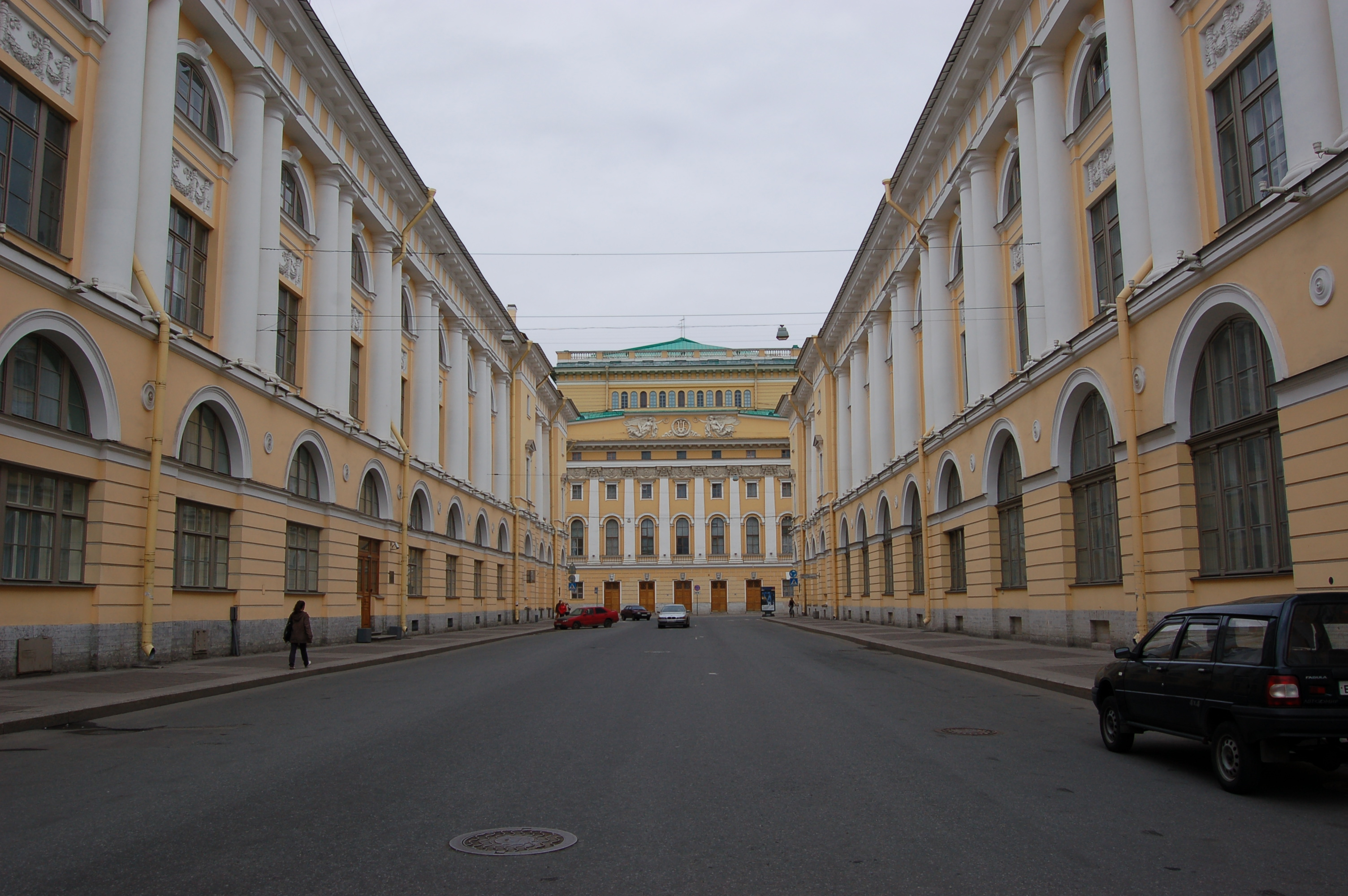 Vaganova Academy of Russian Ballet, Saint Petersburg, Russia.